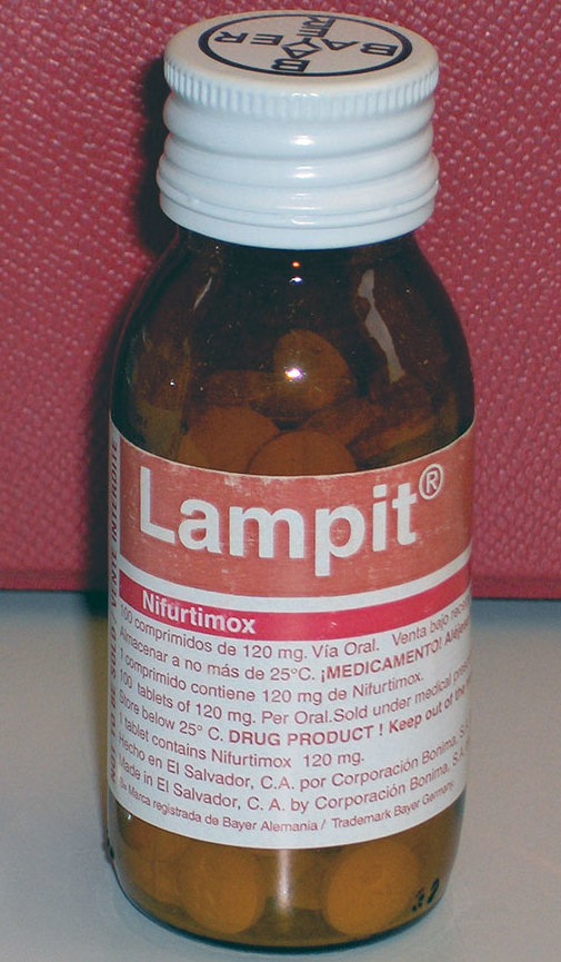 Image of nifurtimox and eflornithine